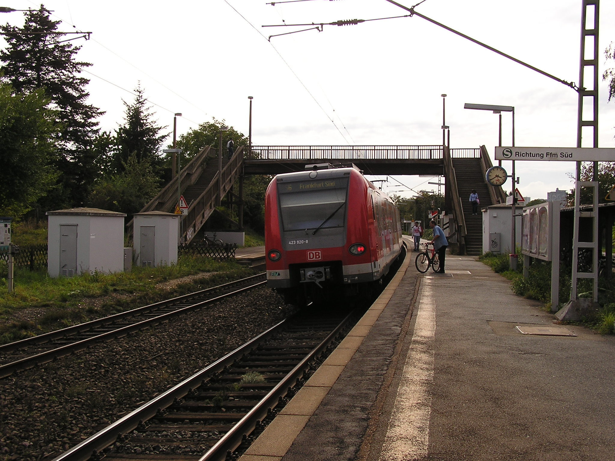 An EMU Class 423 reaches the stop FFM-Berkersheim. Because of the low curve radius the rails are sloped.